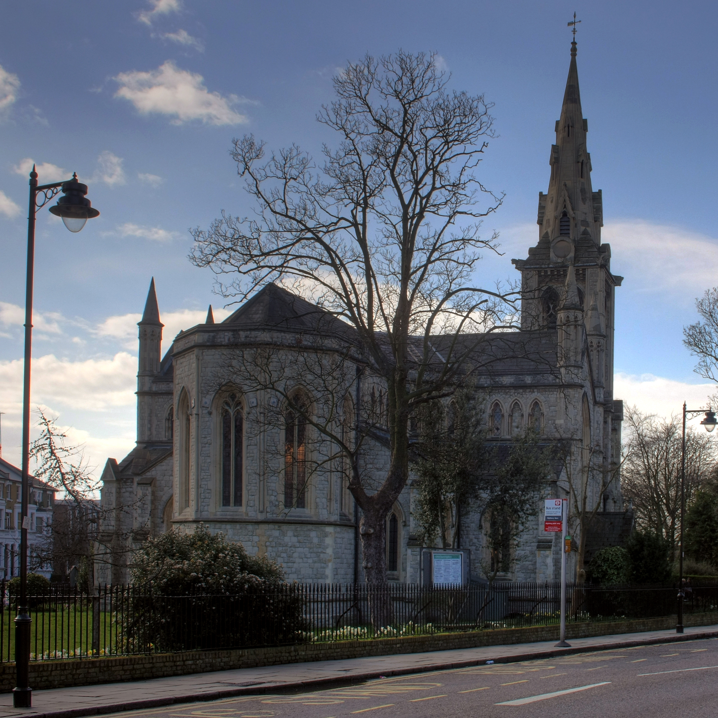 Christ Church parish church, Highbury Grove, London N5, seen from the north